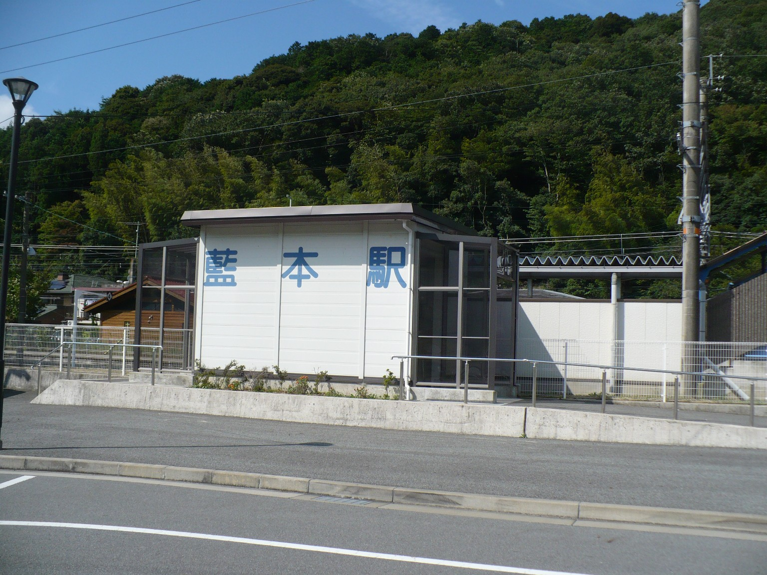 East side building of Aimoto station of JR West Fukuchiyama line, Sanda, Hyogo, Japan